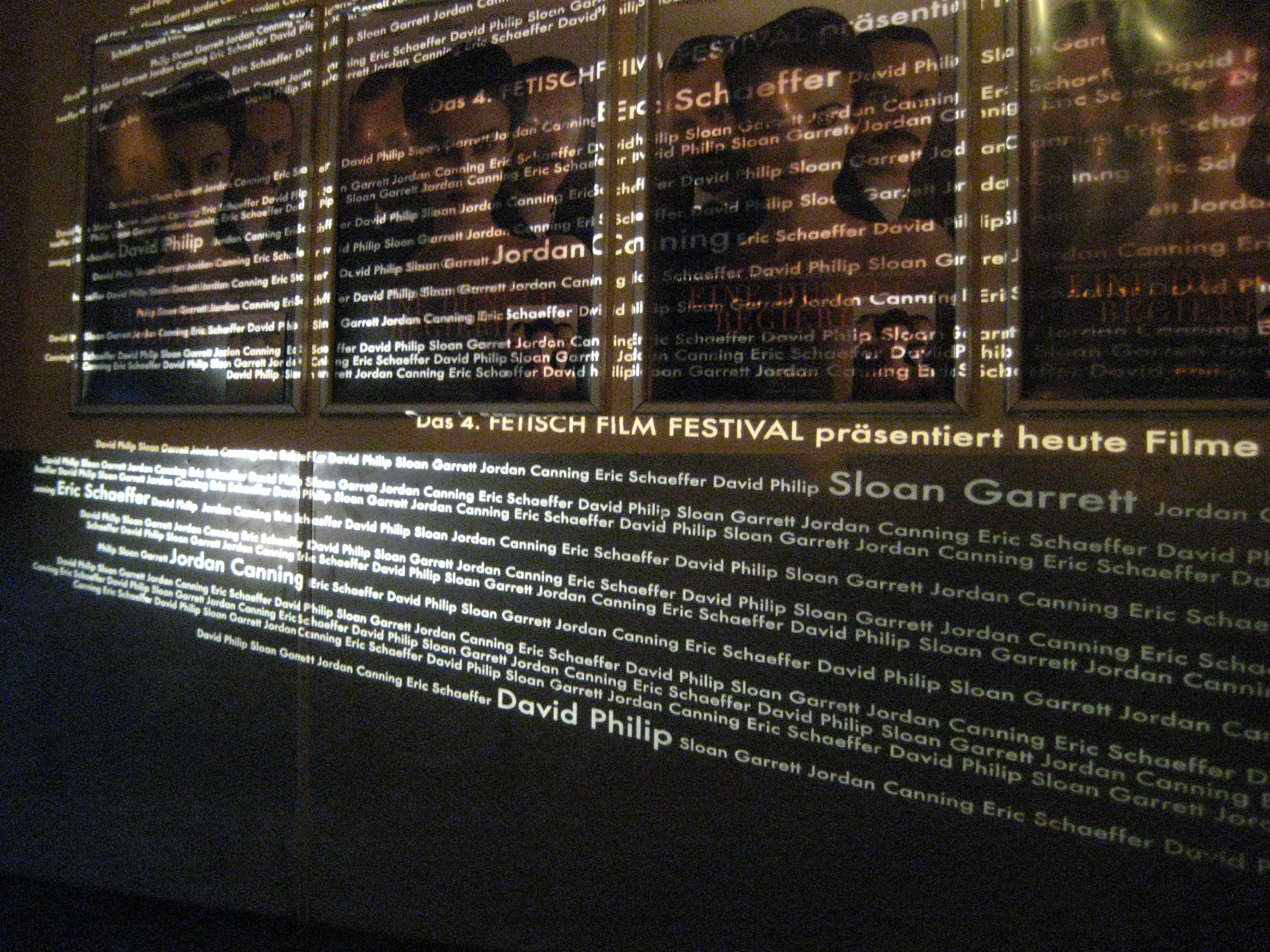 Fetisch Film Festival 2011